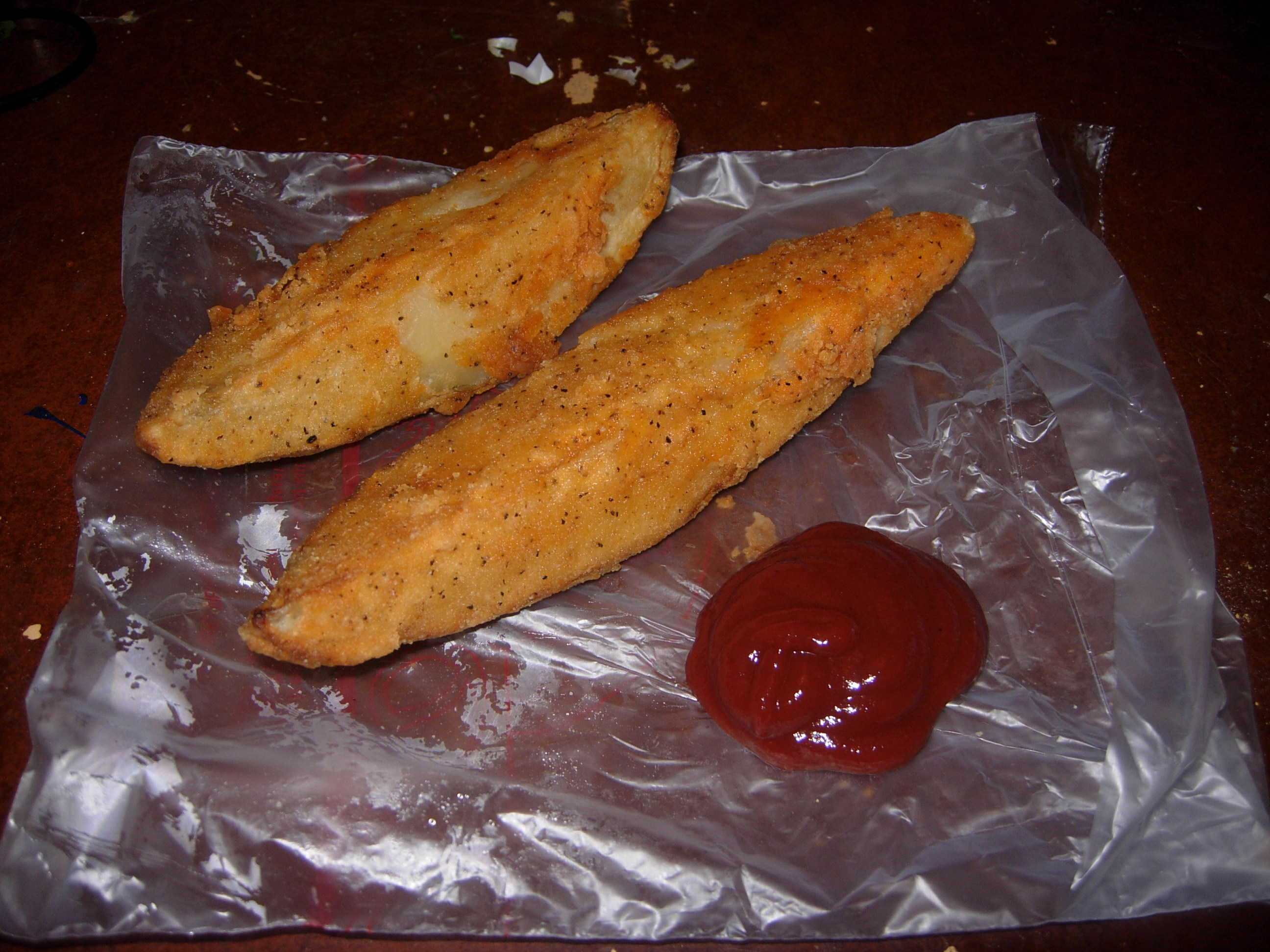 Jo-Jos, or potato wedges, with ketchup.